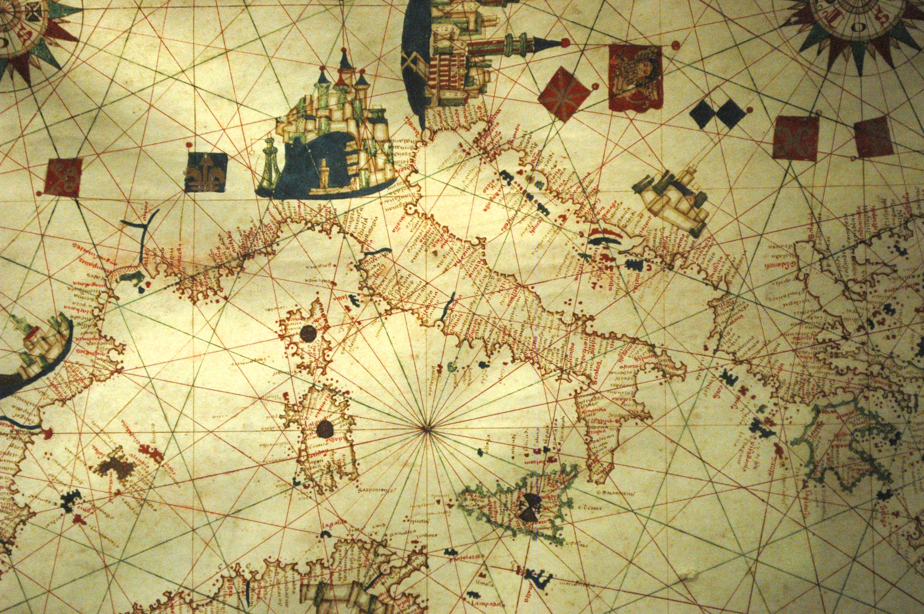 Banet Panades, Nautical chart of the Mediterranean Sea, illuminated parchment, Messina 1557 Galata Museo del Mare, Genoa, Italy